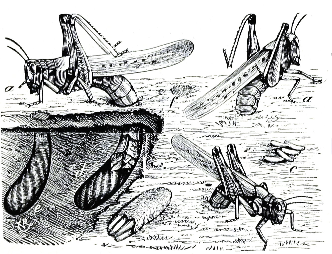 Rocky Mountain Locust oviposition.